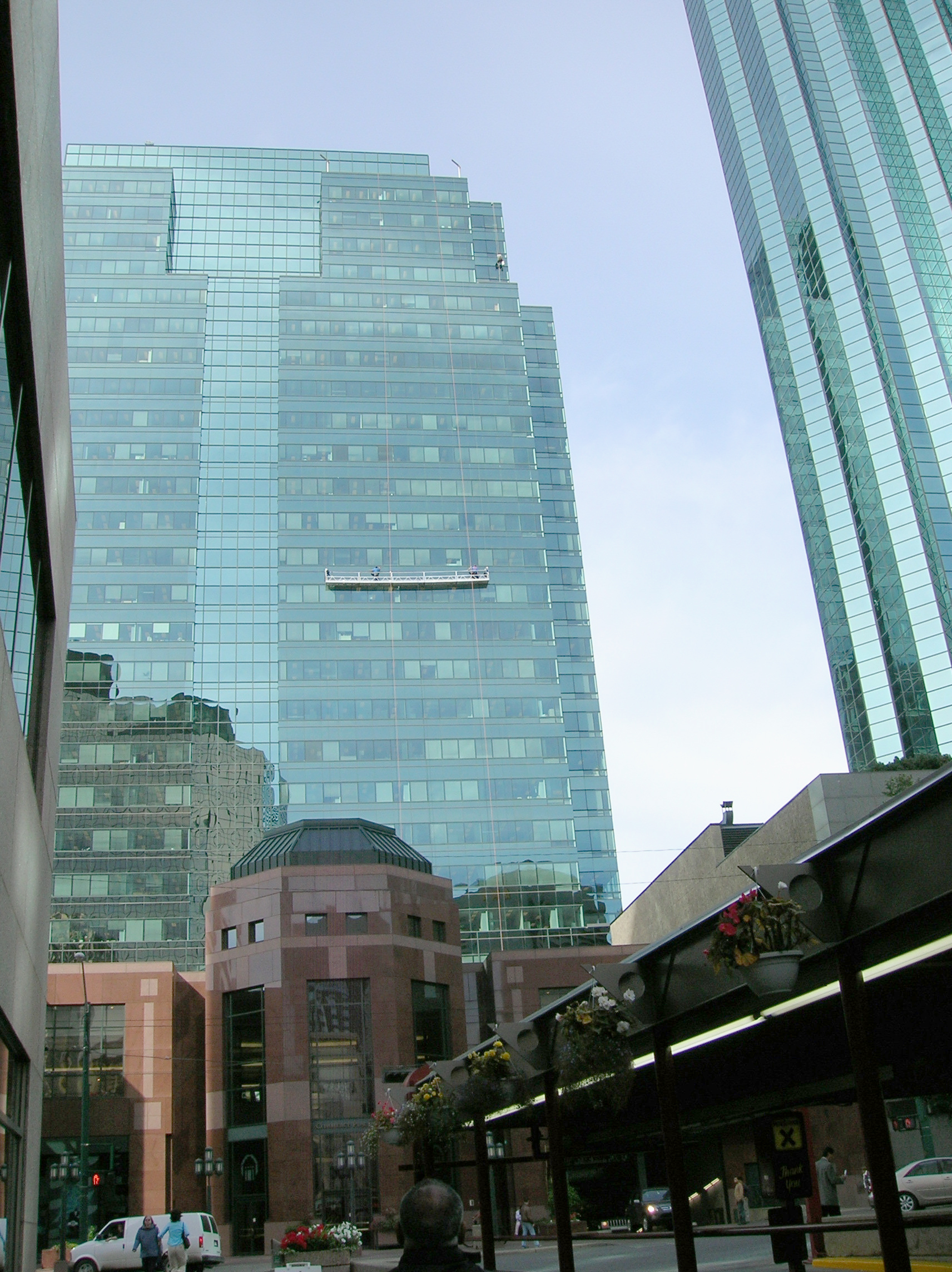 Edmonton, September 2005 (Commerce Place) author: Christa Hauke, Zwickau, Germany